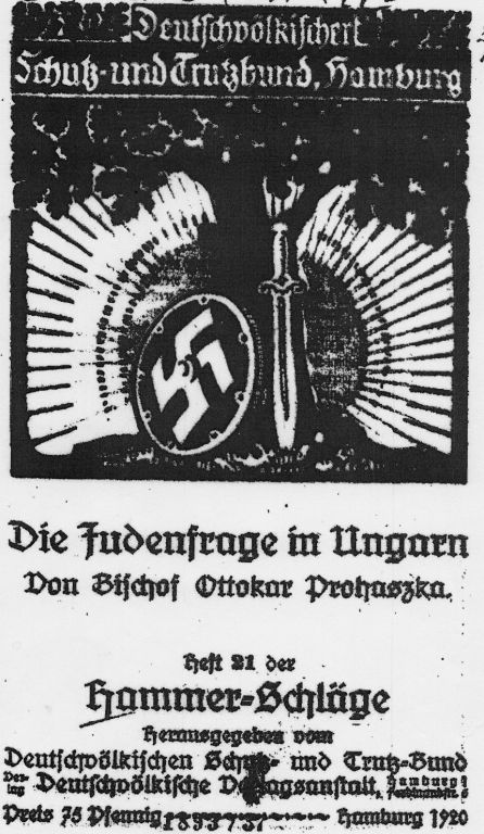 Cover page of "The Jewish Question in Hungary" or "Die Judenfrage in Ungarn" by Ottokár Prohászka , 1920, Hamburg